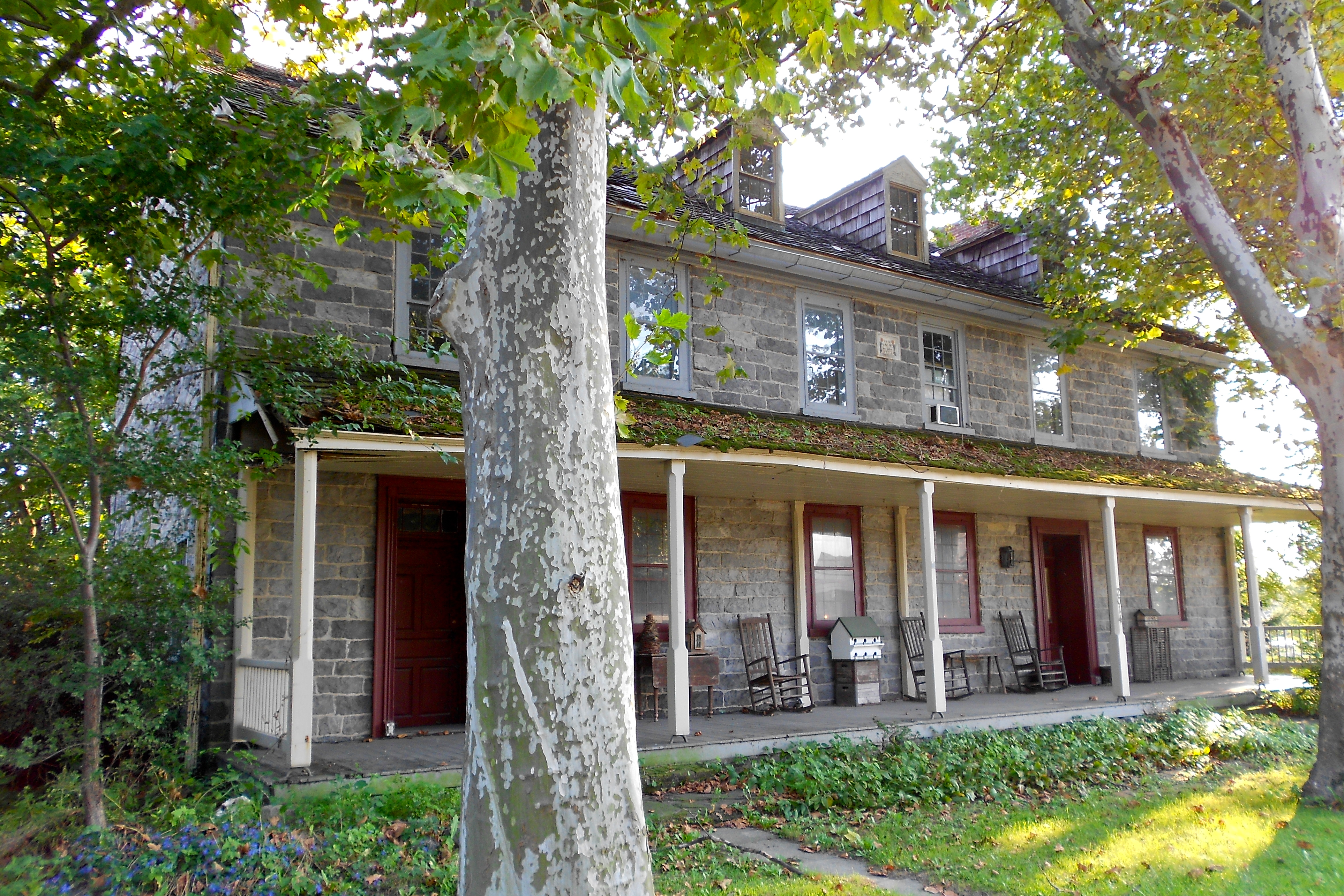 Witmer's Tavern historic tavern located on the Old Philadelphia Pike. Now just east of the "expressway" US 30, with the front mostly hidden by tree. In the back is a retirement complex.